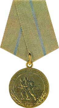 Soviet Medal For the Defence of Odessa